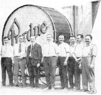 Published in Popular Science on the number of december 1921, page 71. Related text is: It is seven feet high and four feet from drumhead to drumhead. It is wheeled along on a little carrier during parade. When mounted on this the top is nine feet from the ground. The tone is deep and rather subdued, but it has a wonderful volume and resonant power that make this drum able to balance the most strenuous of a 125-piece brass band. The world largest drum was not constructed without difficulty. It took several months to find two bull hides large enough for the heads, which are one hundred inches in diameter. Such heads put a great strain on the shell, which required special re-enforcing and a novel type of screw-rod manipulators for varying the tension of the heads. After the instrument was completed, it was found that the doors of the ordinary baggage-car are not large enough to admit it, and a special car will be necessary when the band goes on tour.